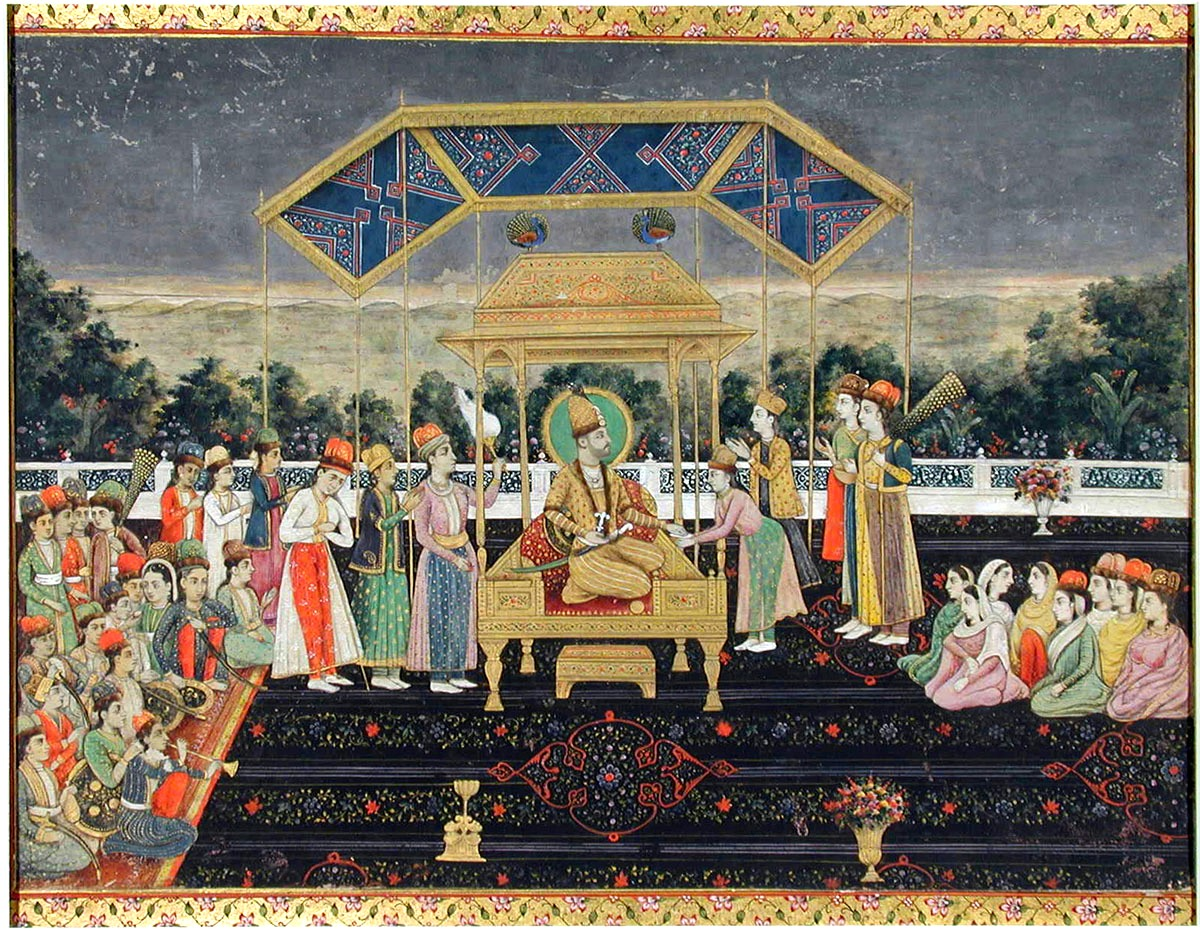 Nadir Shah on the Peacock Throne after his defeat of Muhammad Shah. Media & Support: Opaque watercolor on paper Display Dimensions: 12 1/8 in. x 16 9/16 in. (30.8 cm x 42.1 cm) Credit Line: Edwin Binney 3rd Collection Accession Number: 1990.407